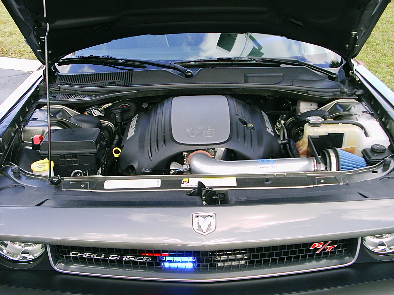 Broward County (Florida) Sheriff's 2010 Challenger pursuit vehicle - Hemi engine.